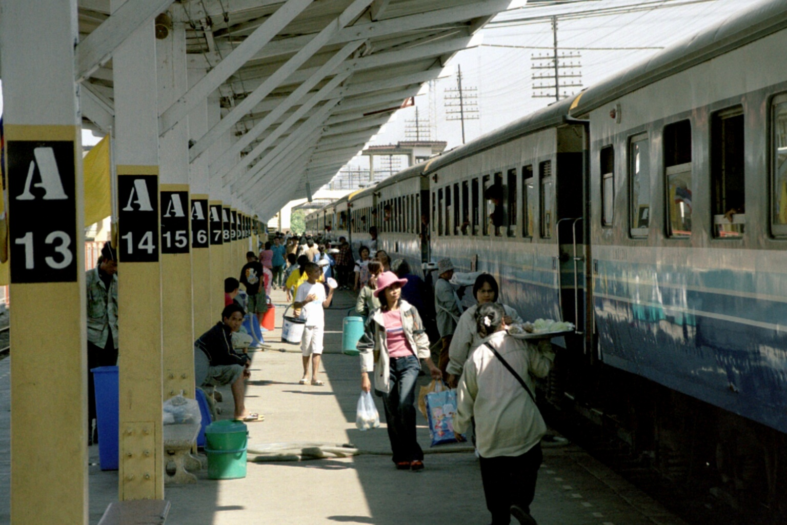 Nakhon Ratchasima Station, inside